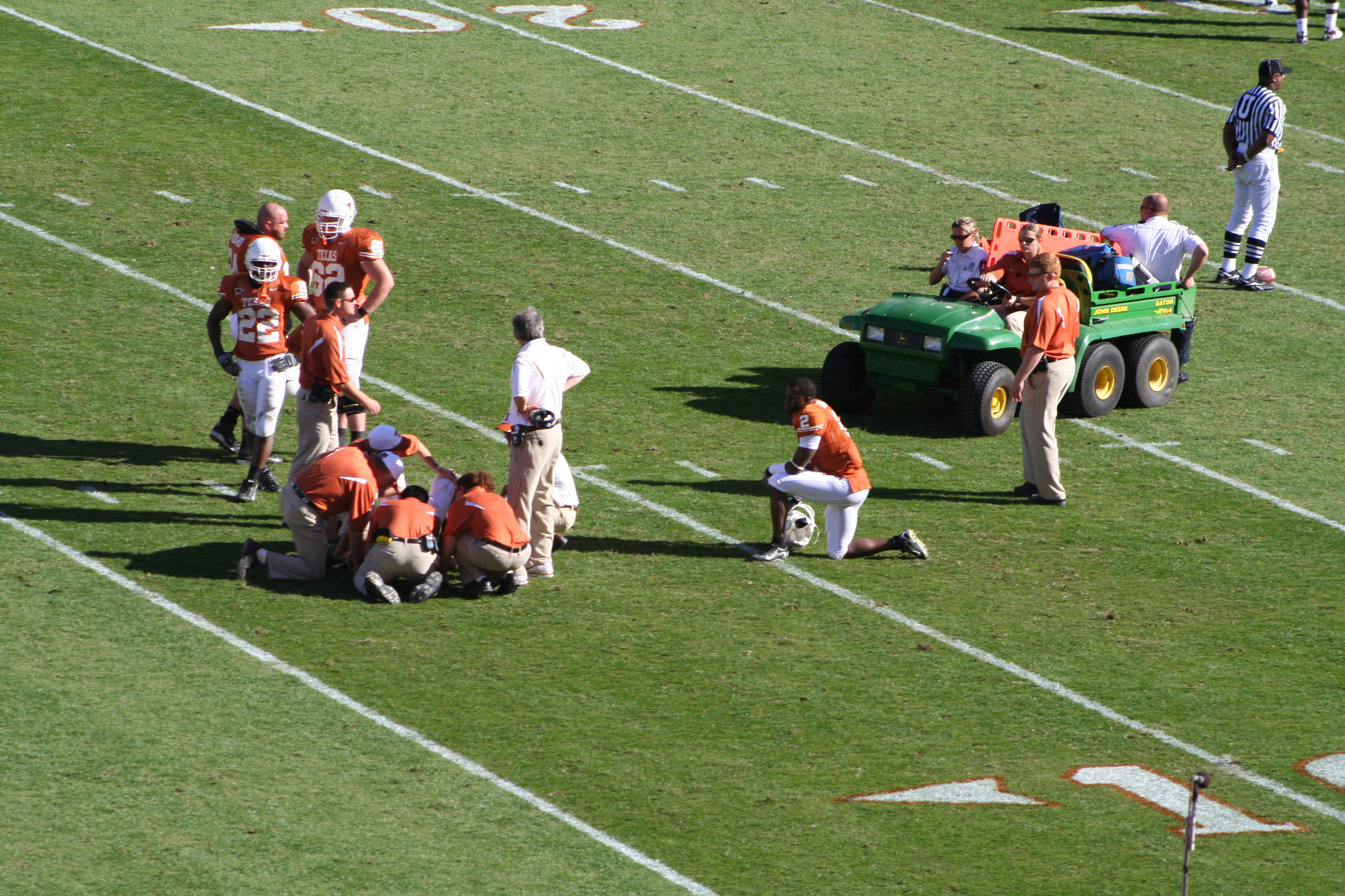 College football game betwen University of Texas at Austin and Texas A&M University - UT quarterback Colt McCoy injured.